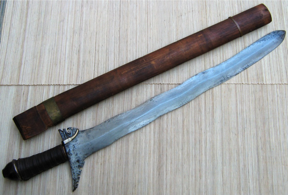 "The kris [kalis, in Tausug (Sulu) dialect] is the most famous Moro weapon. Variations are found in every Moro tribe and it was a key symbol of a man’s status and rank in society as well as being a powerful talisman. Kris blades are wide at the base, double-edged, and can be waved, half-waved half-straight, or straight (straight blades were more practical in combat). Older kris had fewer waves and the waves were deeper and wider." From The kris shown here has the so-called tulip bud shaped pommel. The same kris is believed to be from the late-19th to early-20th century. The scabbard is made of two loose pieces of soft wood, secured together by strips of brass. Overall sword length: 682 mm (26.9 inches); Blade length: 552 mm (21.7 inches); blade is extra thick than the usual krises. Other uploaded materials by the same author are here: (a) Luzon weapons; (b) Visayan weapons; (c) Moro weapons; and (d) Lumad (non-Moro Mindanao) weapons